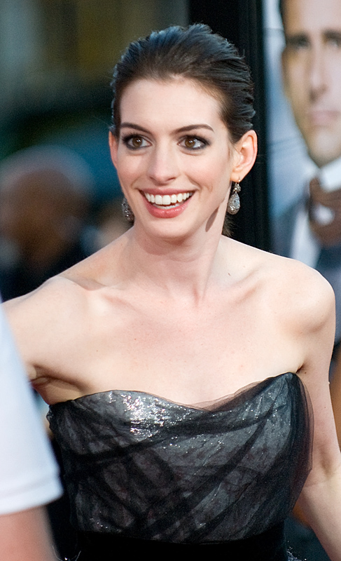 Anne Hathaway at the Get Smart film premiere, Fox Theater, Westwood, CA 6-16-08